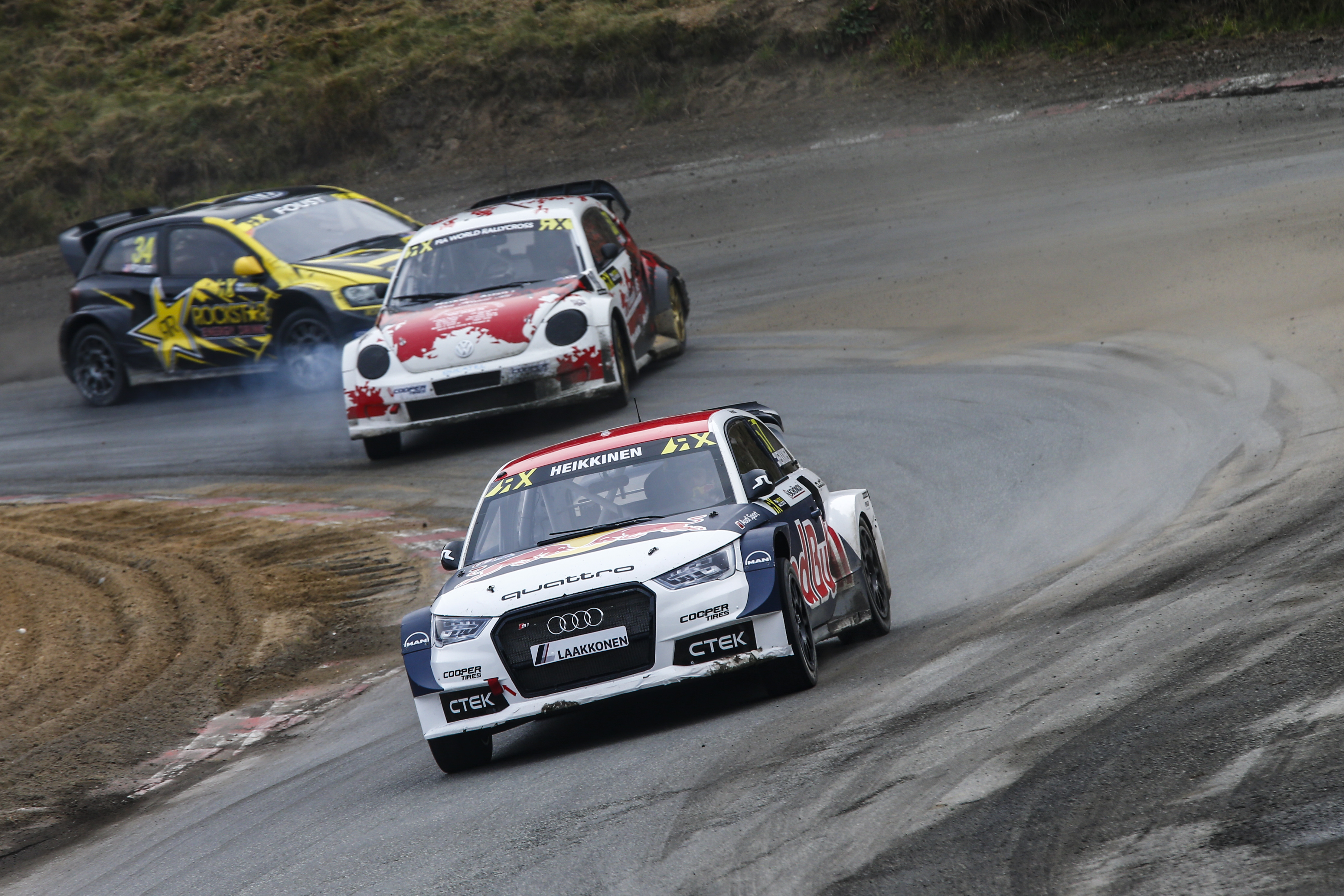 2016 FIA World RX Rallycross Championship / Round 11 / Buxtehude, Germany / October 14-16, 2016 // Worldwide Copyright:Colin McMaster/EKS/McKlein